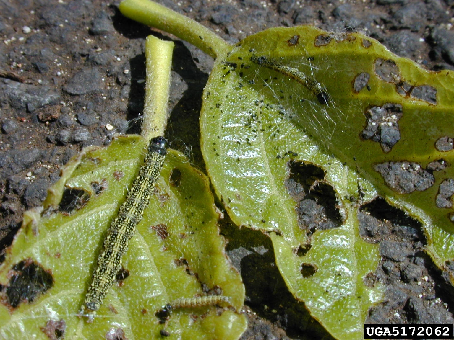 Ethmia nigroapicella larva